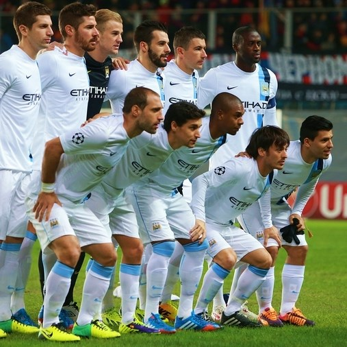 Manchester City 2013